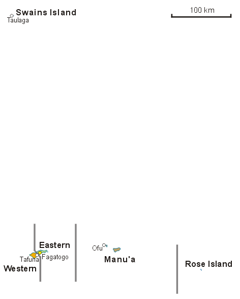 Map of districts of American Samoa